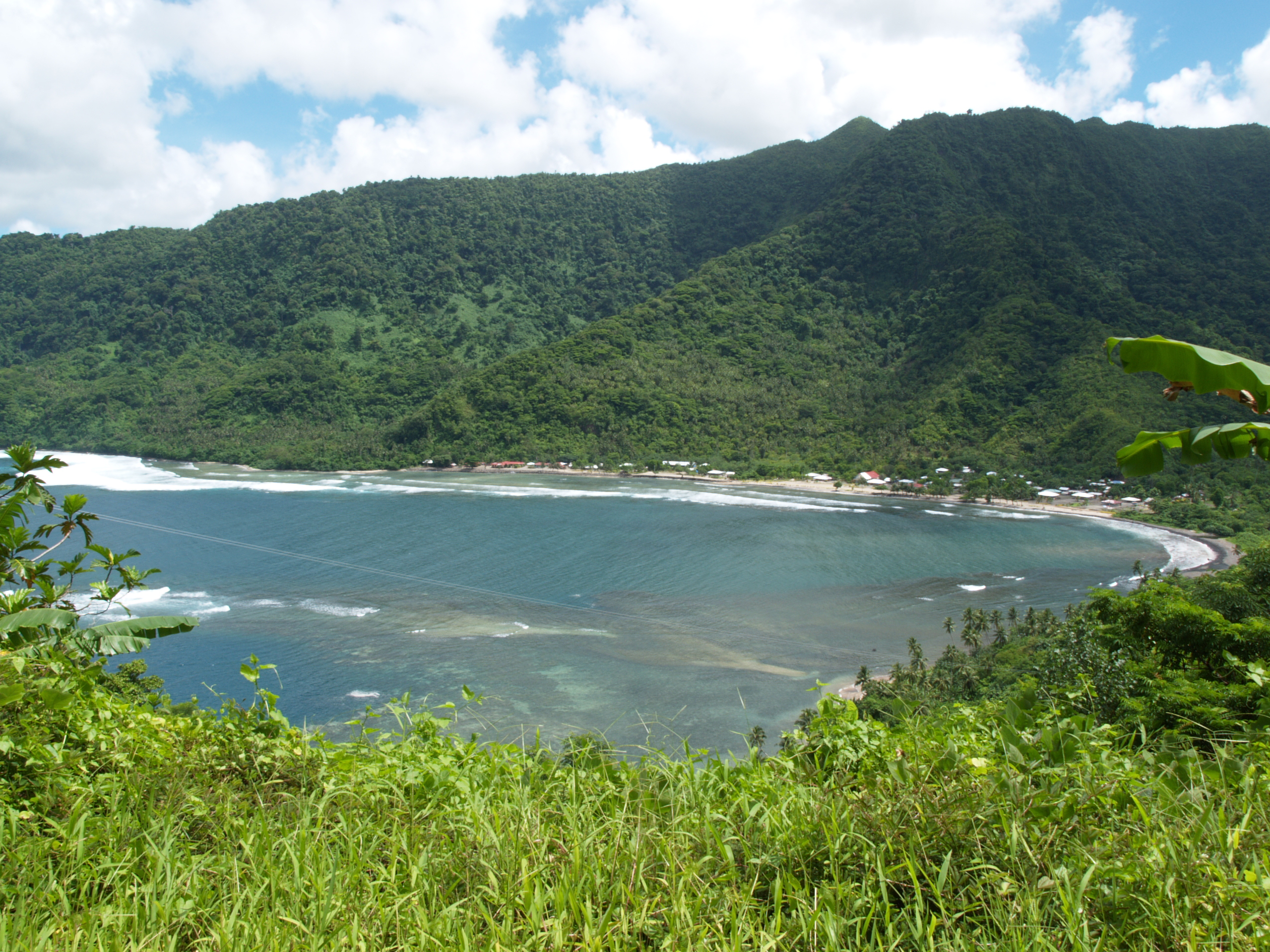 Uafato village seen from the narrow access road. To be included in article on Uafato. --CloudSurfer 18:06, 18 July 2007 (UTC)